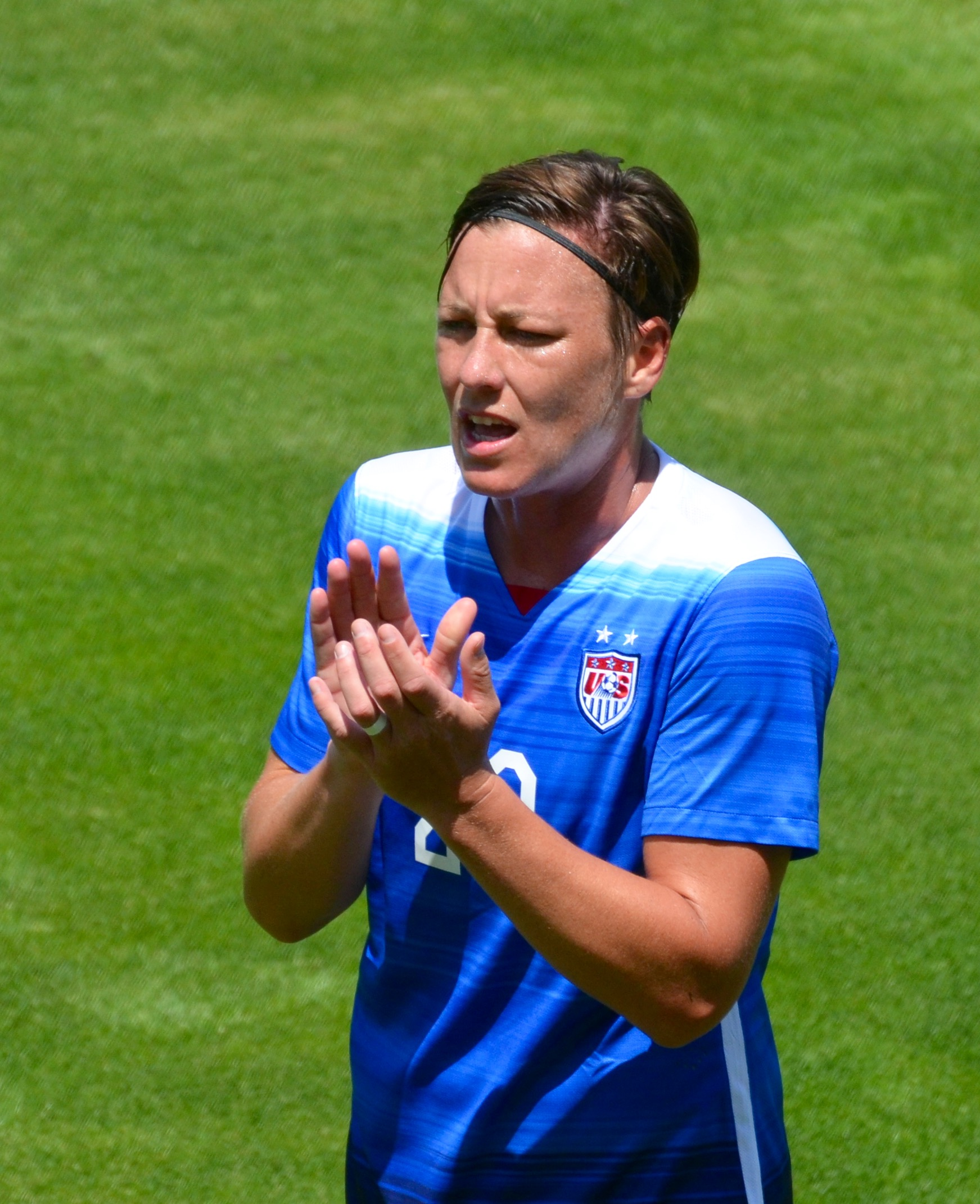 Abby Wambach playing for the US Women's National Team in San Jose, California on 10 May 2015.